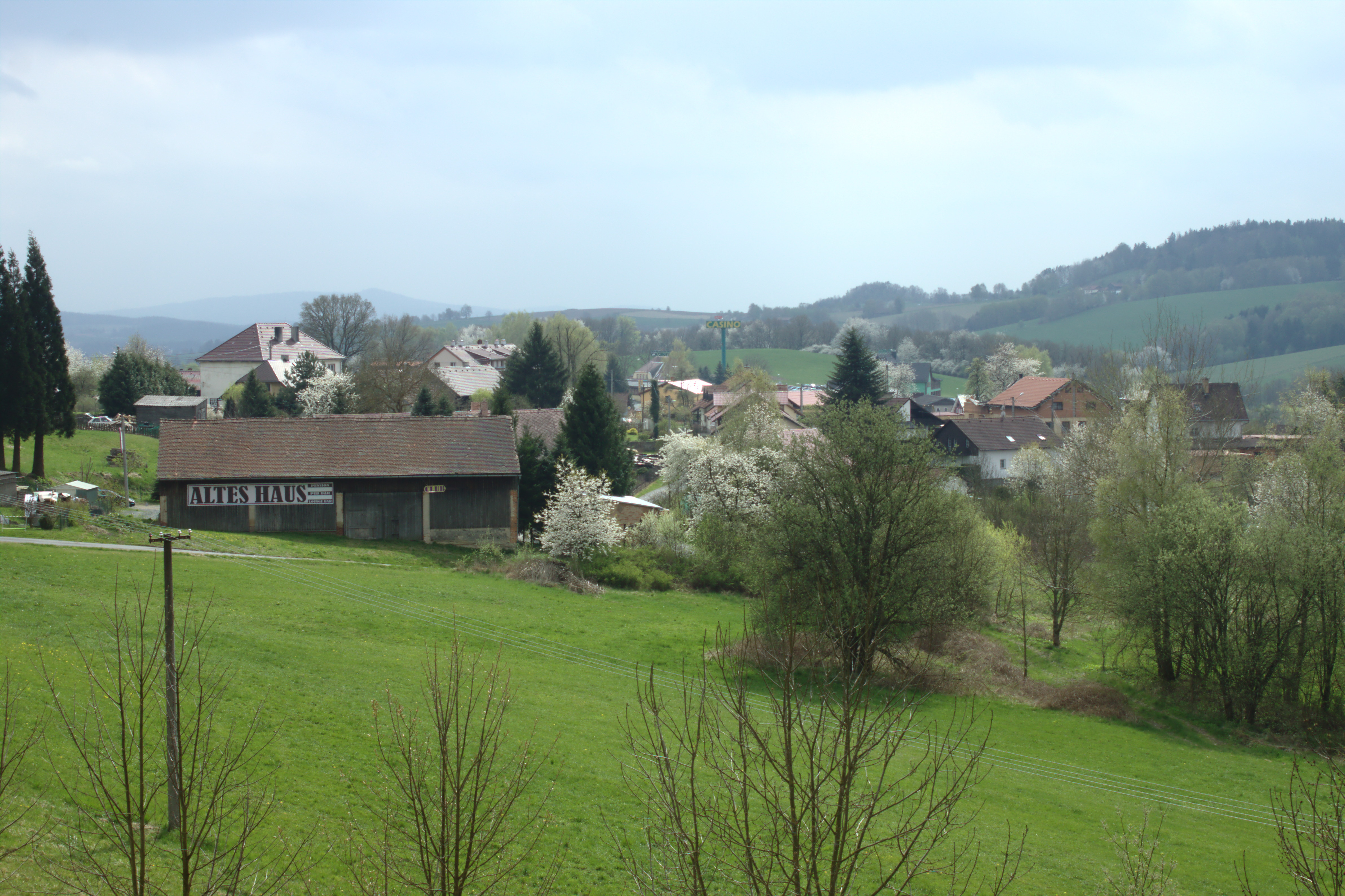 View of Dolní Folmava from north, Plzeň Region, CZ